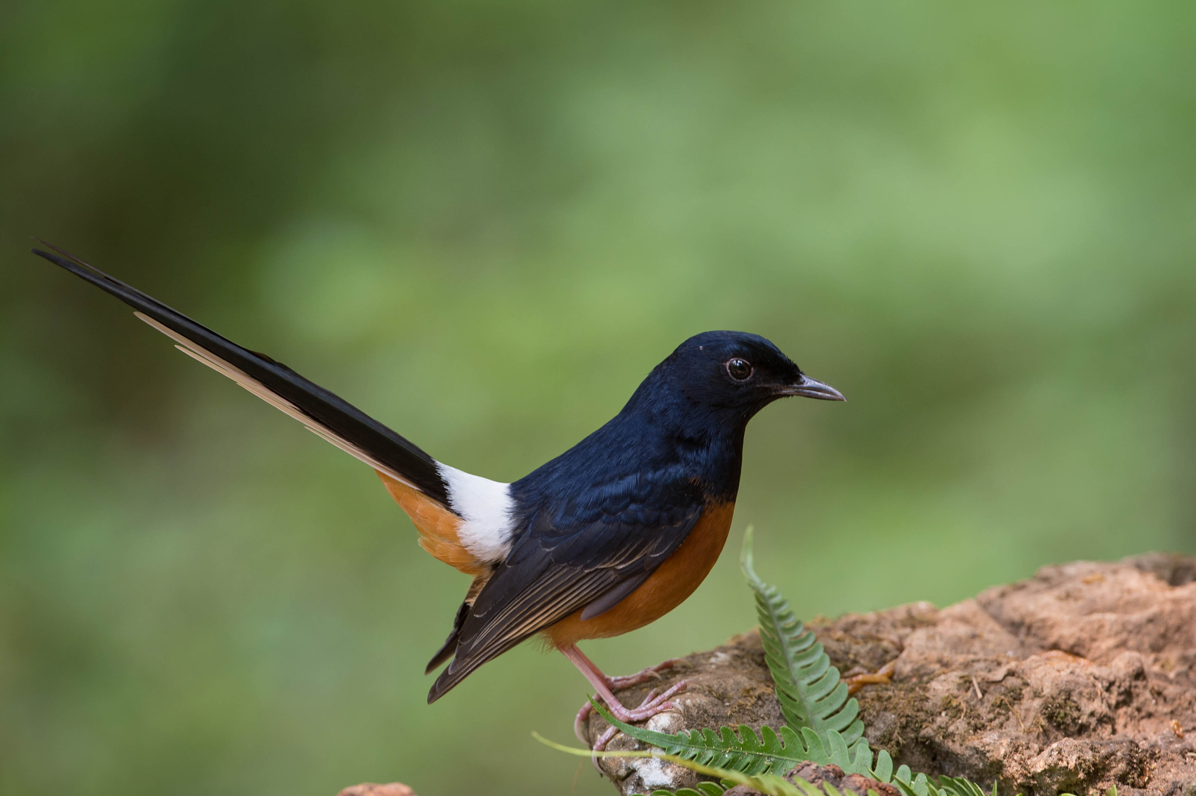 White-rumped Shama (Copsychus malabaricus) at Thai/Myanmar Border. Doi Ang Khang National Park, Chiang Mai, Thailand